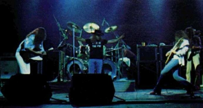 Trade ad for Lynyrd Skynyrd's single "Free Bird". To better adapt it to his respective Wikipedia article, the ad was cropped and cleaned in a graphics editing program. The original can be viewed at the source below.